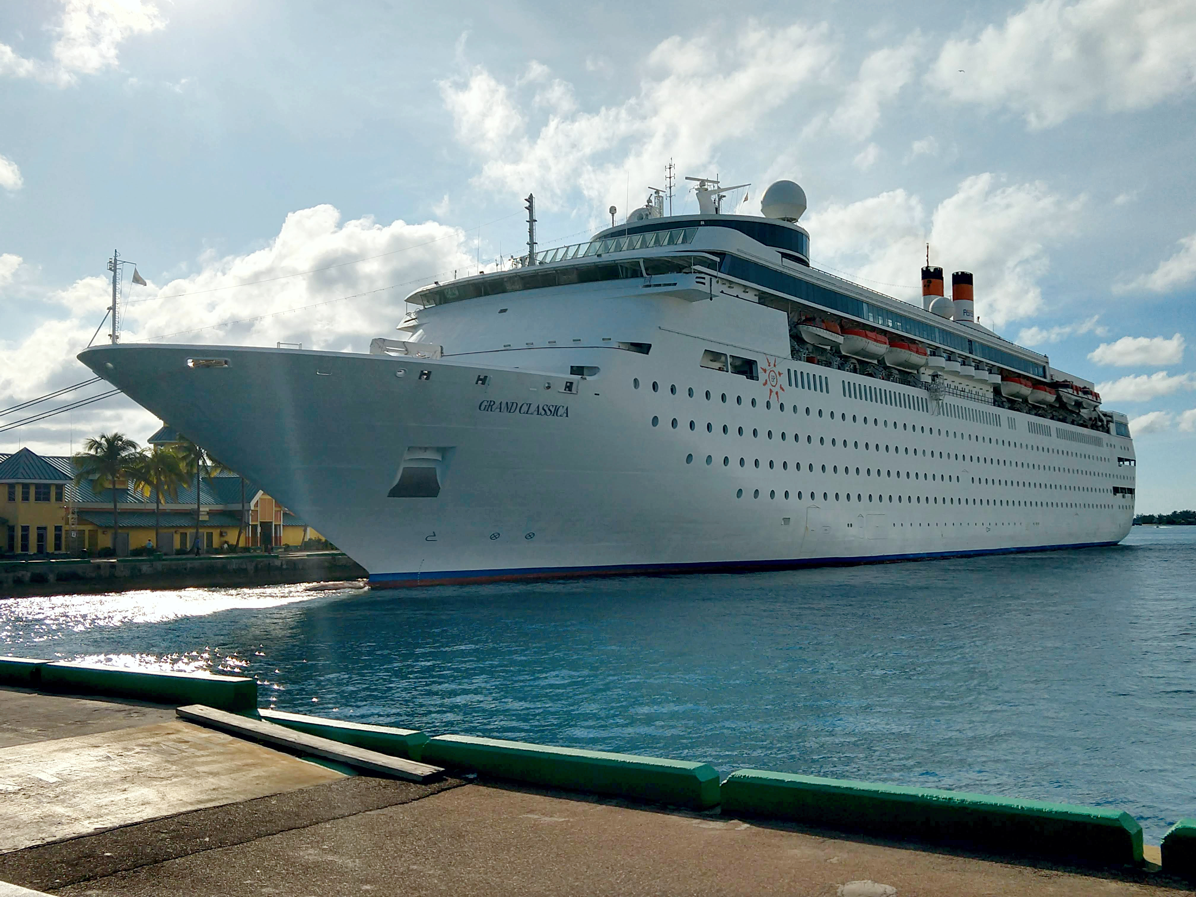 The Bahamas Paradise Cruise Line Grand Classica docked in Nassau, Bahamas